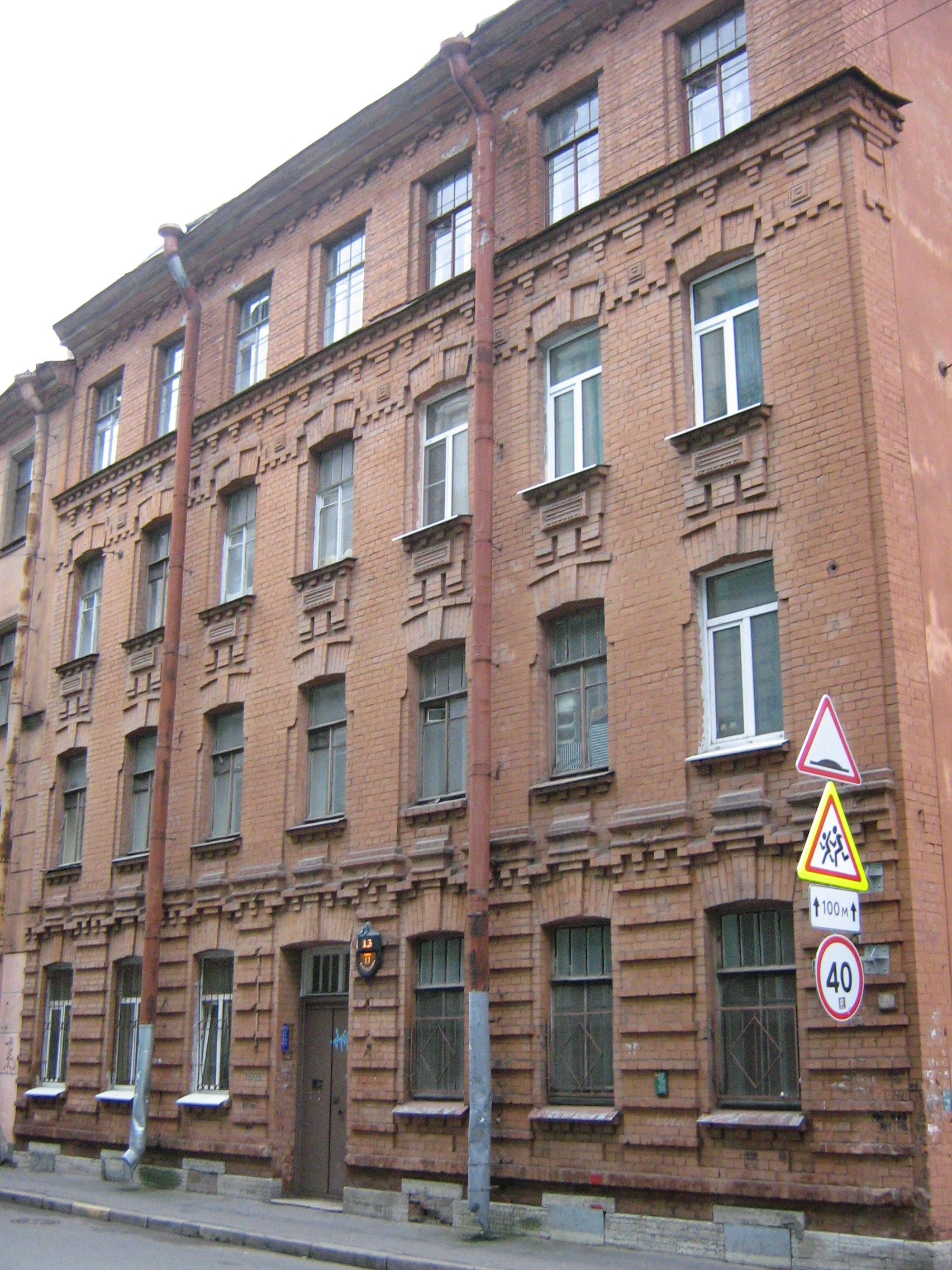 13, Plutalova Street, Saint-Petersburg, Russia. Rebuilt be architect Otton Ignatovich in 1898-1899.